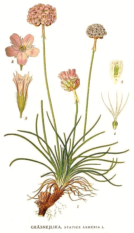 Armeria maritima Willd., syn. Statice armeria L. Original Description Gräsnejlika, Statice armeria L.